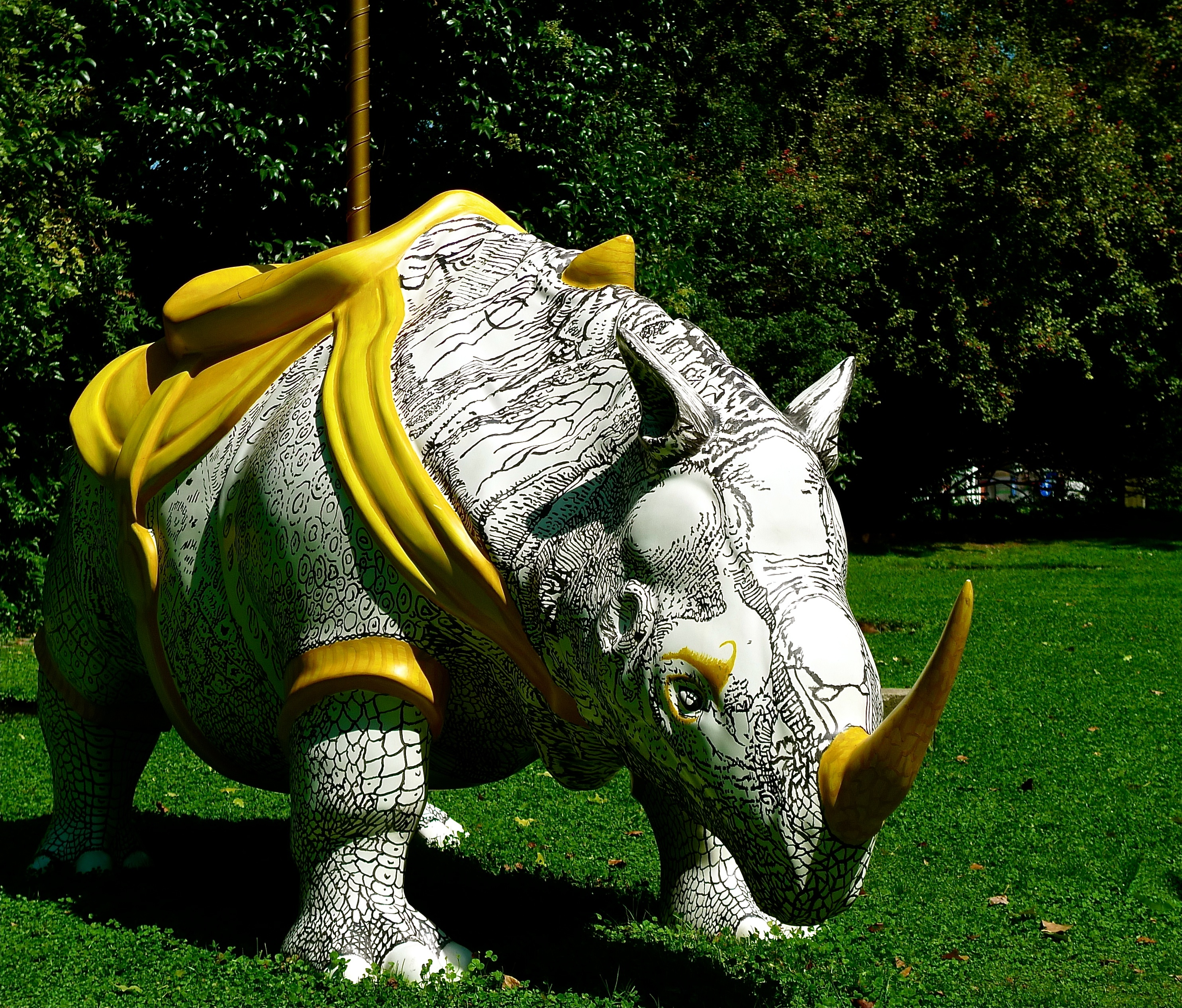 Animal sculpture in the Calouste Gulbenkian Garden, Lisbon, Portugal